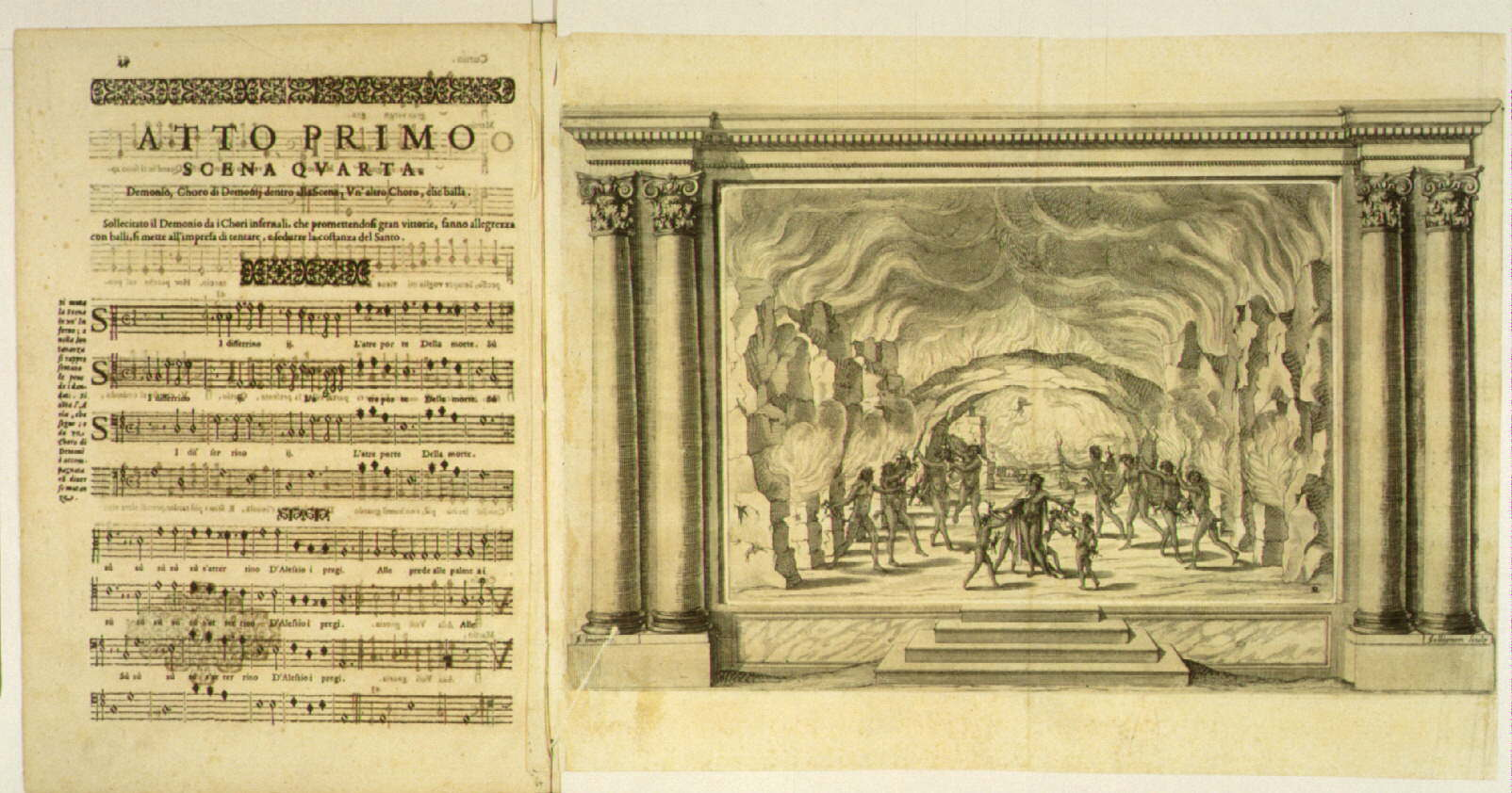 Scene from Il sant' Alessio, Landi, 1632 From [1]; public domain